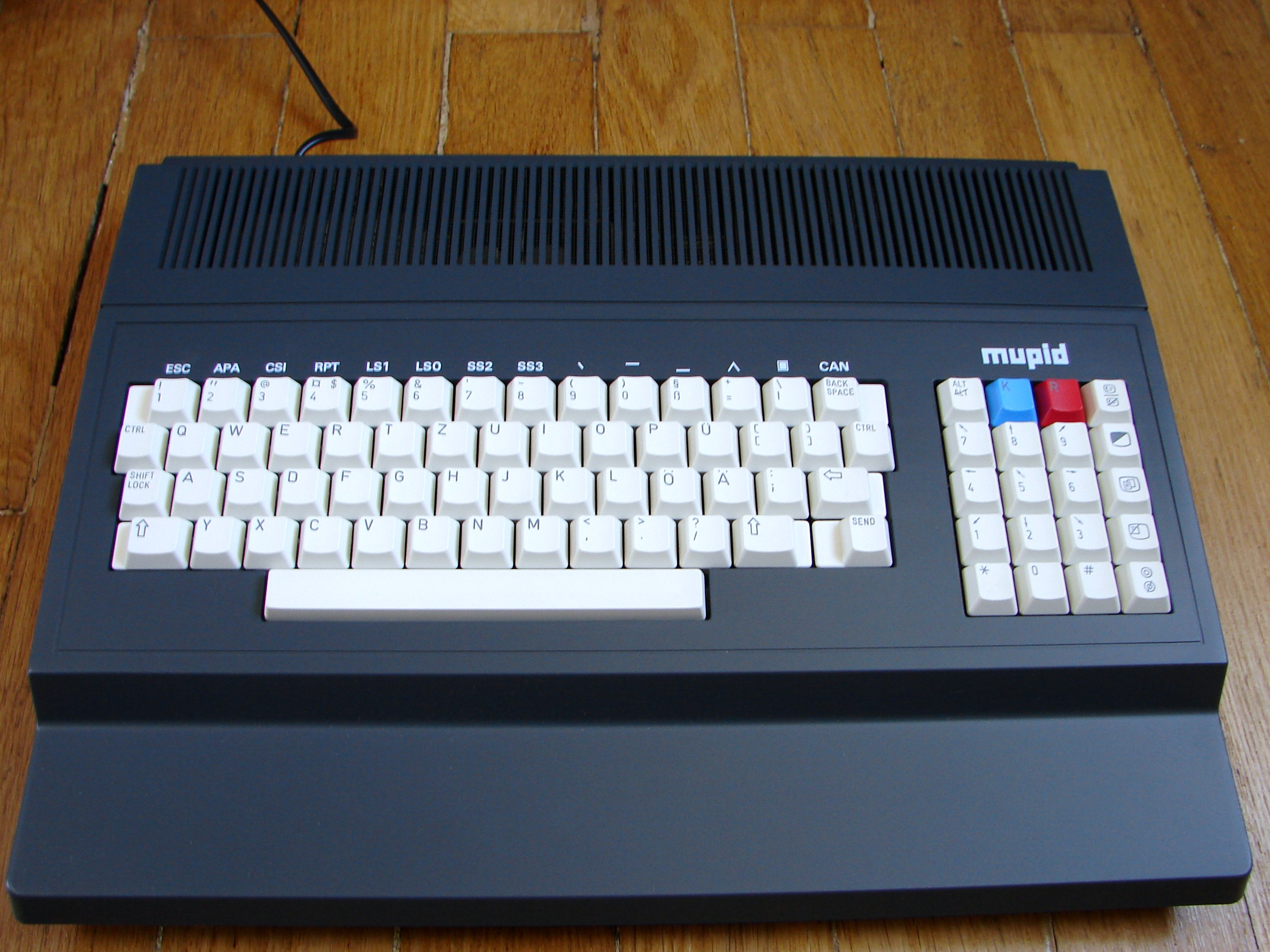 Mupid C2A2 (main view)